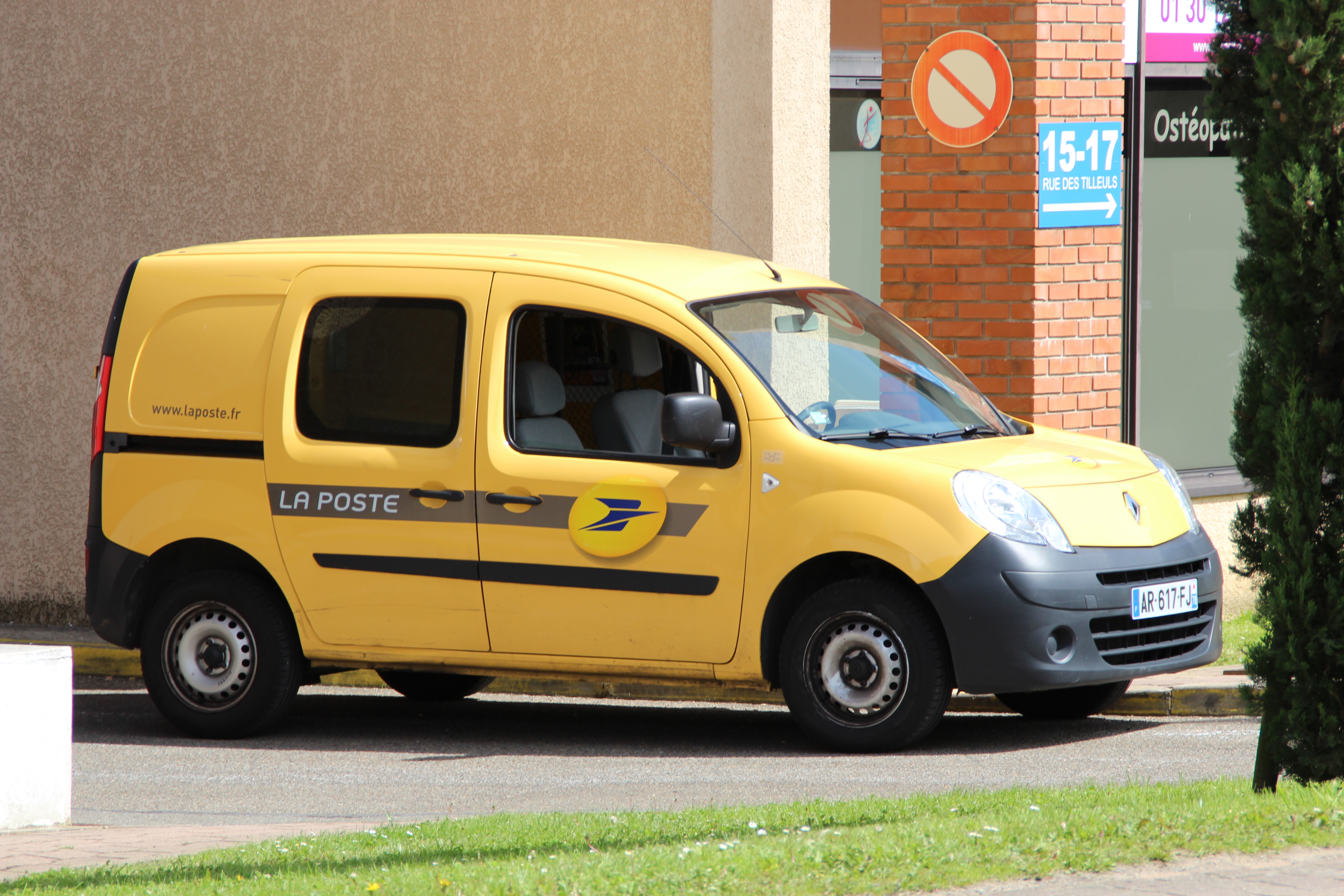 Voisins-le-Bretonneux, France.